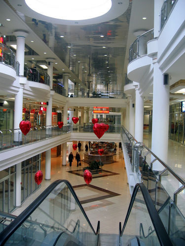 Trade center Capital, Minsk